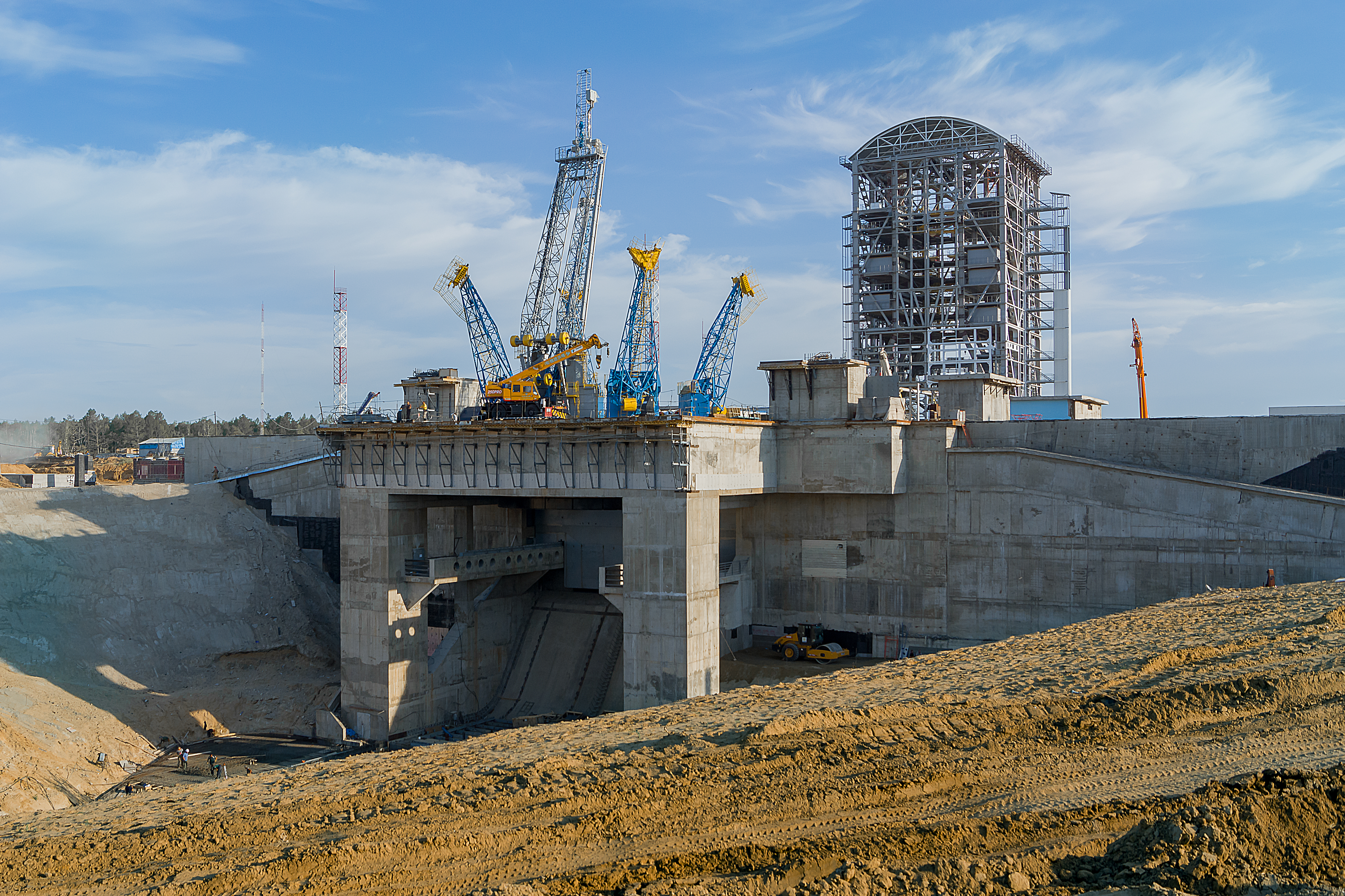 Construction of the launch pad in 2015